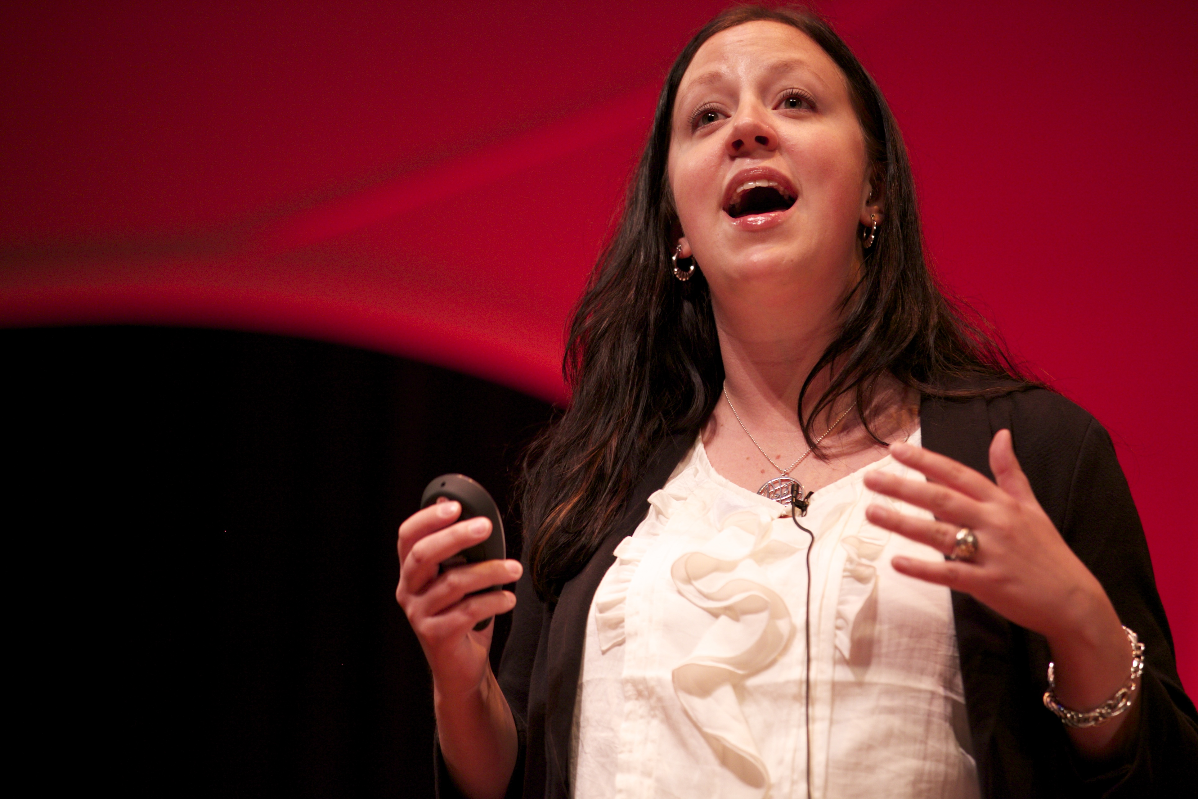 Jillian York speaking at the PdF